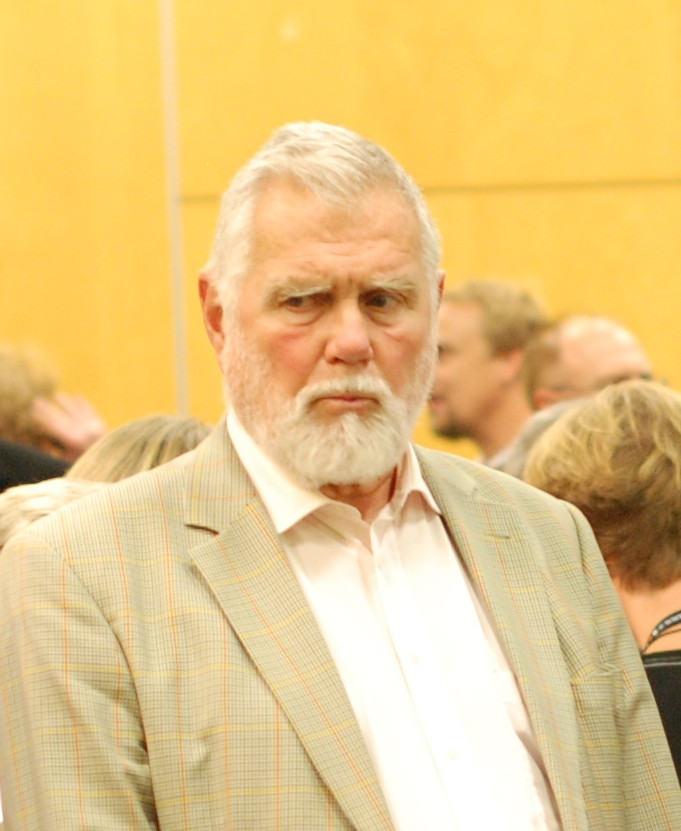 Swedish journalist Ingemar Odlander at the Göteborg Book Fair 2010